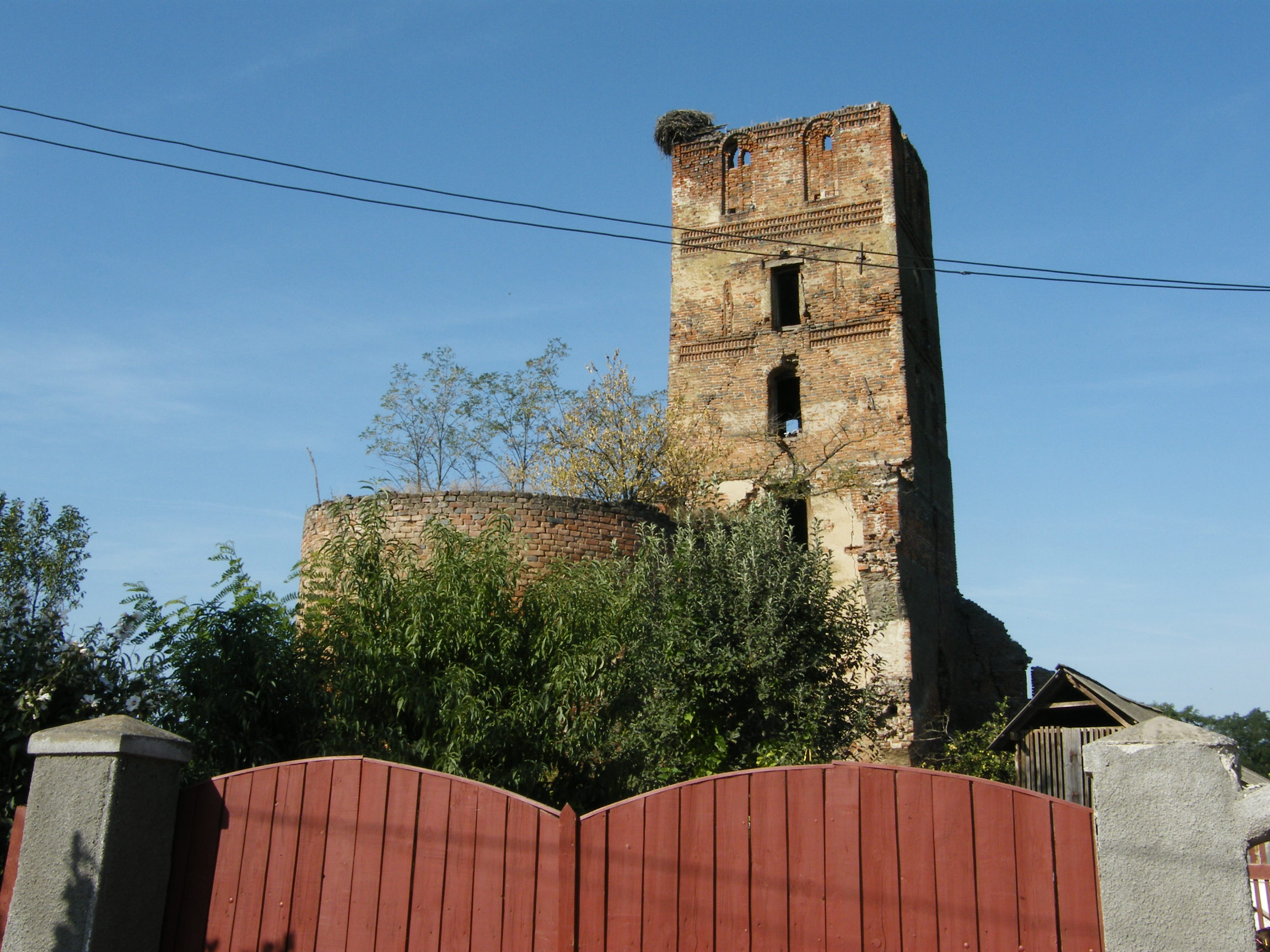 Tamáshida (Tămașda county Bihor) Romania 1